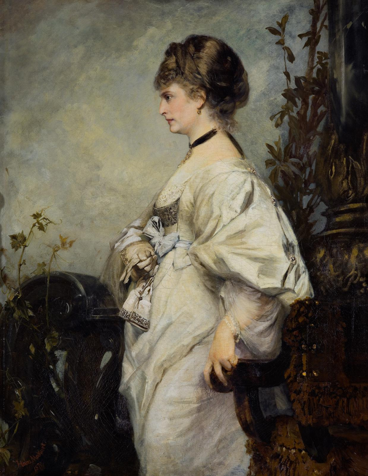 Magdalena Plach was the wife of the Viennese art dealer Georg Plach